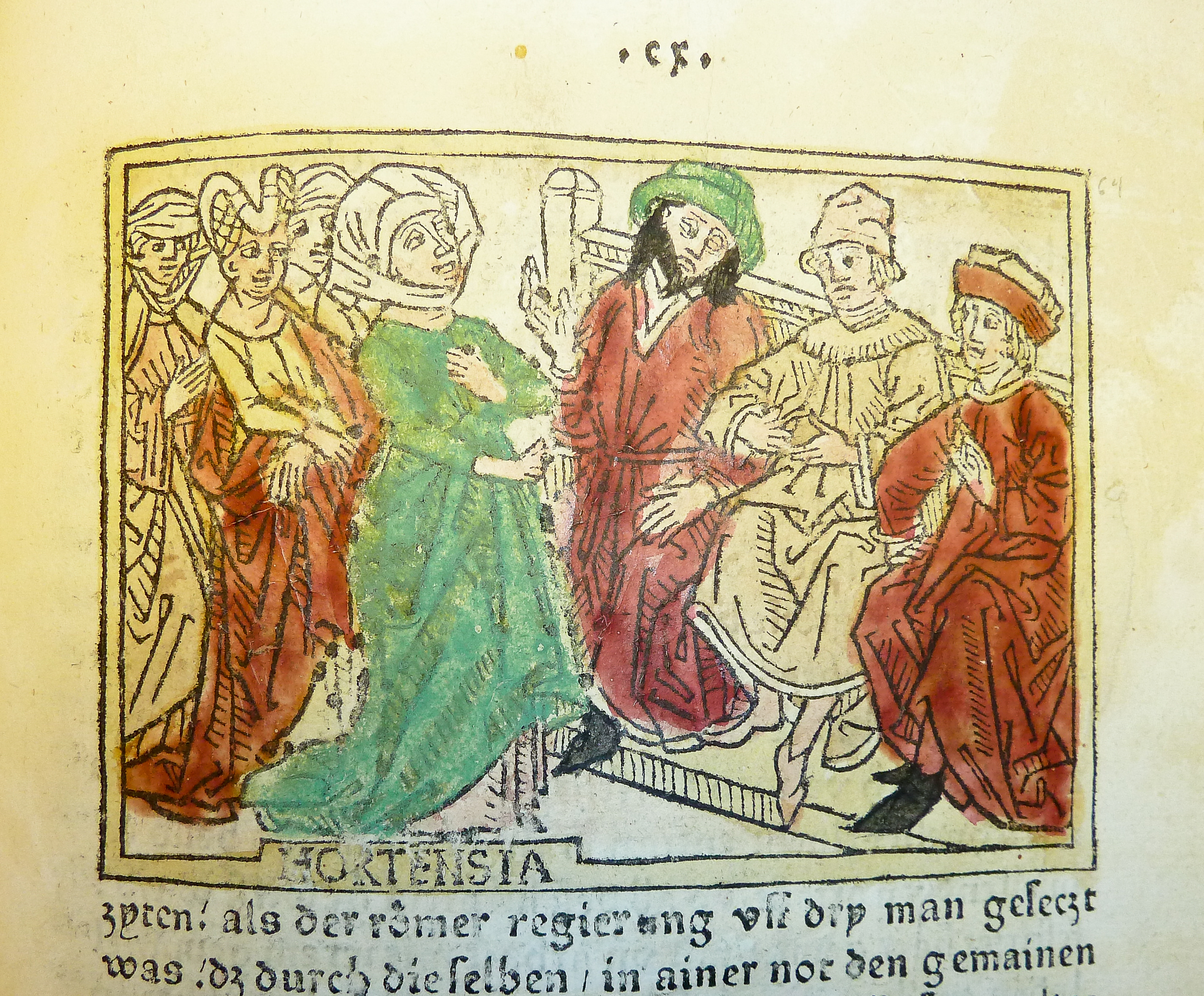 Woodcut illustration (leaf [m]10r, f. cx) of Hortensia pleading her case before the triumvirs, hand-colored in red, green, yellow and black, from an incunable German translation by Heinrich Steinhöwel of Giovanni Boccaccio's De mulieribus claris, printed by Johannes Zainer at Ulm ca. 1474 (cf. ISTC ib00720000). One of 76 woodcut illustrations (1 on leaf [e]8v dated 1473), each 80 x 110 mm., depicting scenes from the life of the women chronicled (for a full list of subjects, cf. W.L. Schreiber, Handbuch der Holz- und Metallschnitte des XV. Jahrhunderts (Nendeln: Kraus Reprints, 1969), no. 3506). "Pour la première moitie le nom se trouve inscrit à côte de la tête de chaque femme, pour le reste il es ajouté entre les deux réglettes. Il n'y en a que trois, qui n'ont qu'un seul trait carré."--Schreiber. Established form: Zainer, Johannes, ‡d d. 1541?. Established form: Hortensia. Penn Libraries call number: Inc B-720 All images from this book Penn Libraries catalog record